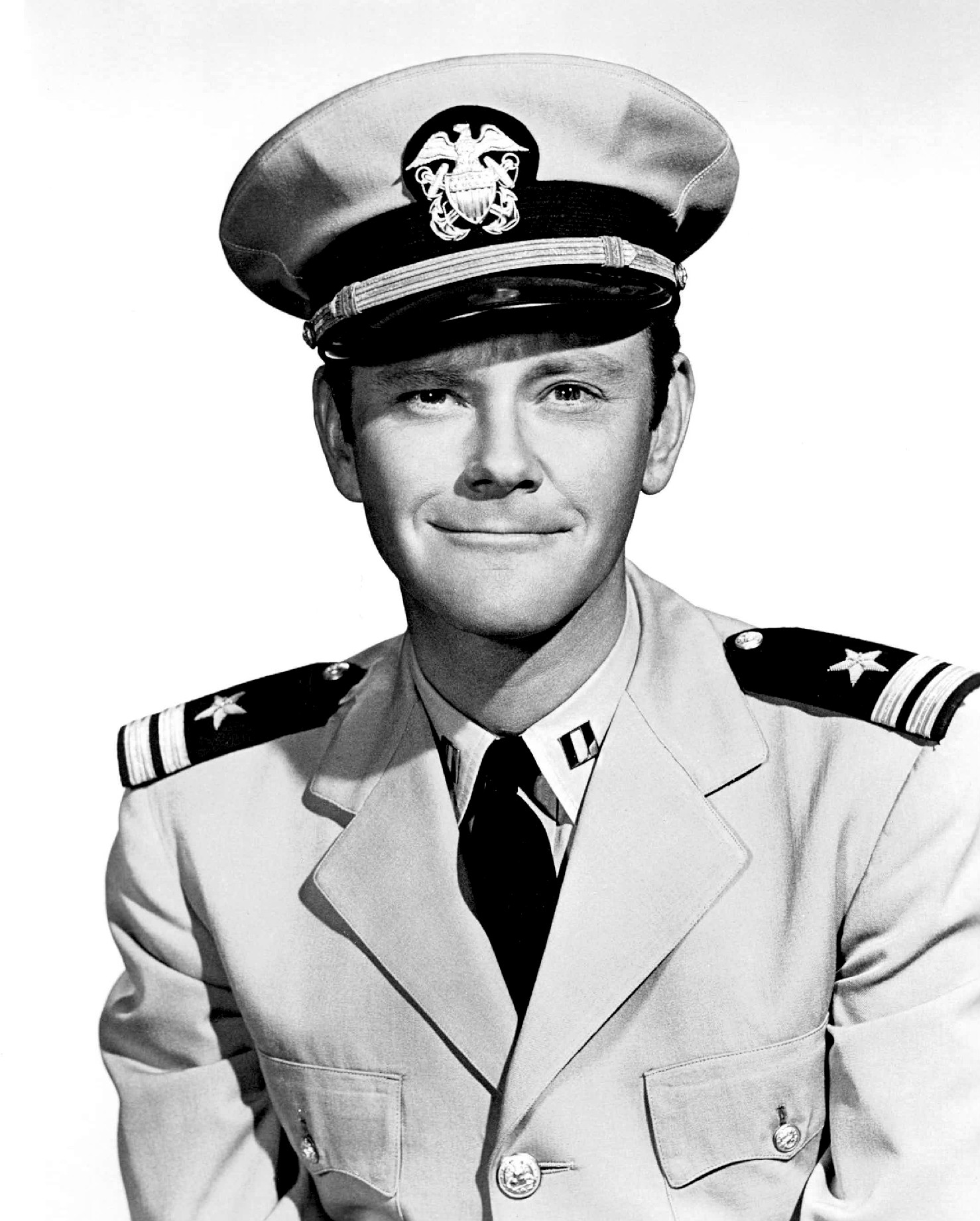 Photo of Dick Sargent as Maxwell Trotter from the television comedy Broadside.